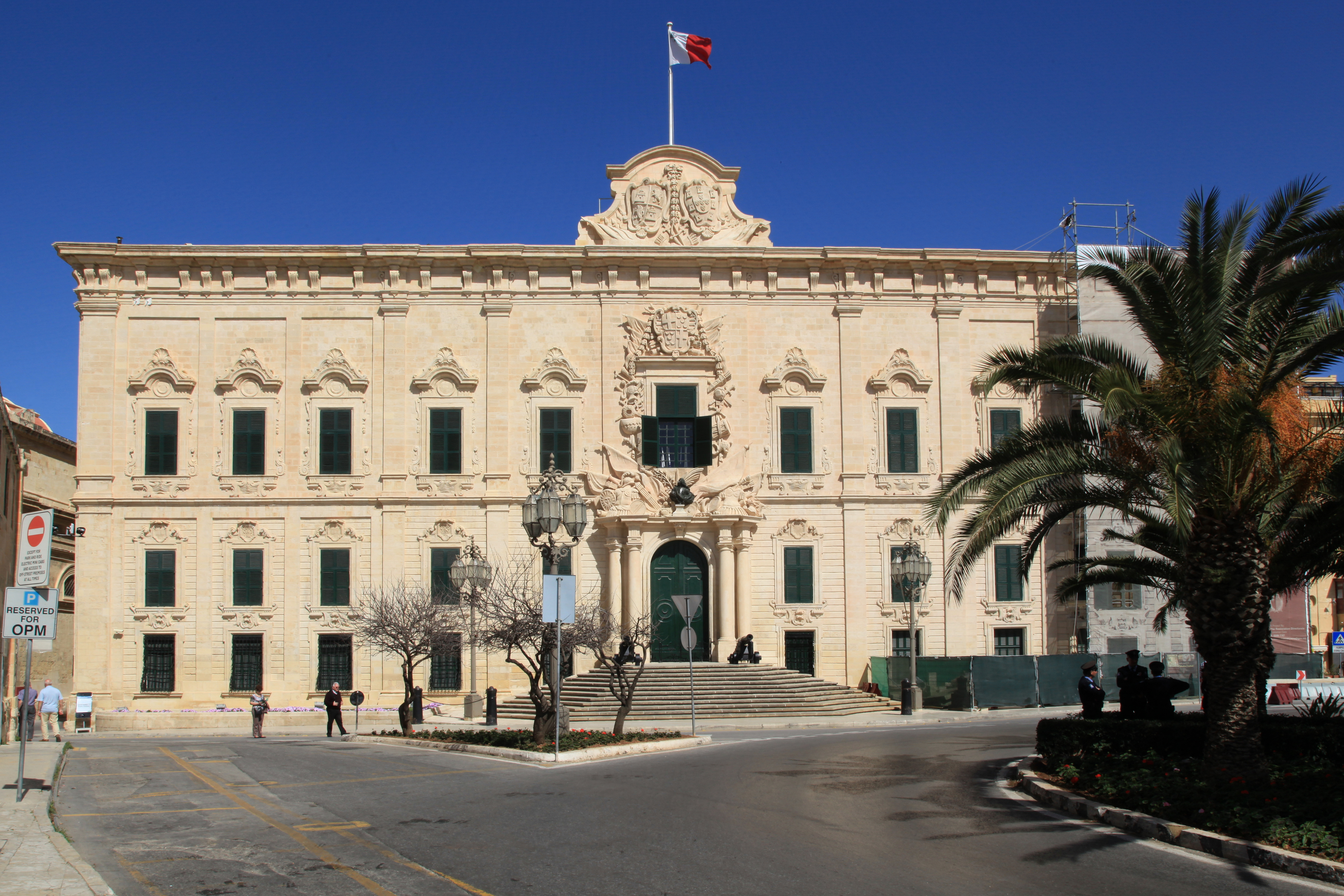 Auberge de Castille at Pjazza Kastilja in Valletta, Malta